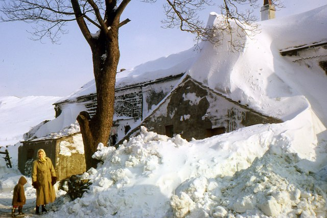 Old farm at Overtown in deep snow in the severe winter of 1962–1963